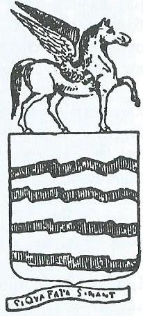 coat of arm of Tocci, dukes of Cephalonia, Lefkada & despots of Epirus